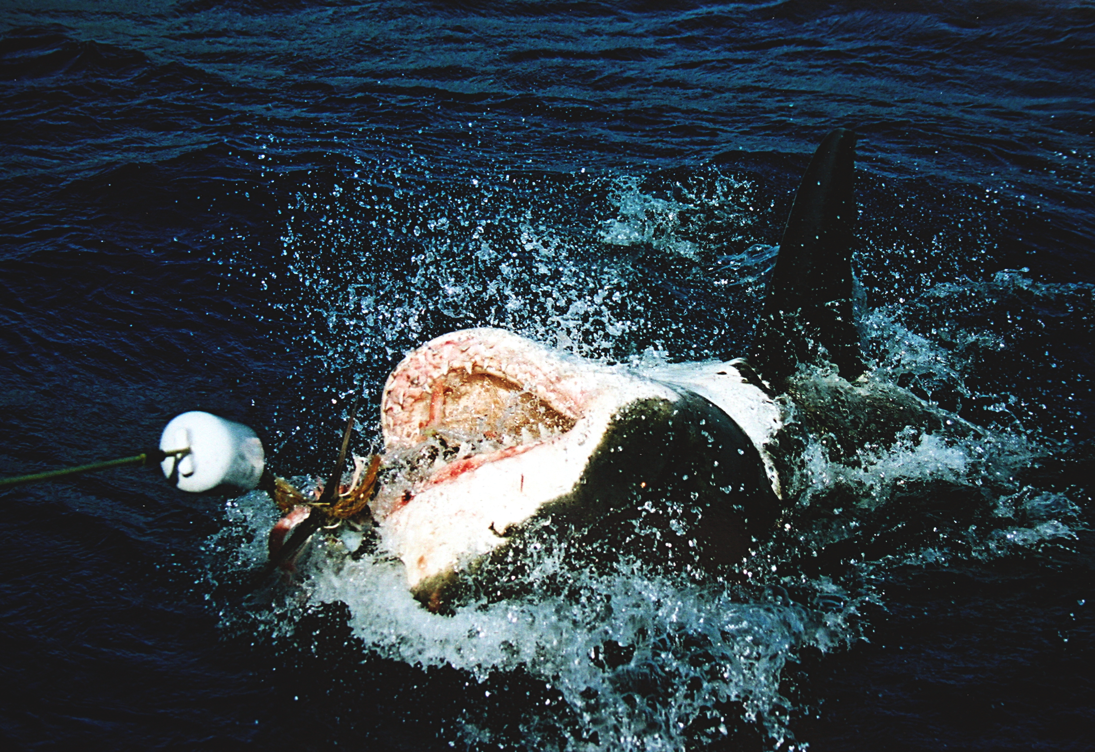 A great white shark at Isla Guadalupe, Mexico is catching a bait of a tuna while swimming at his back. This picture shows a really rare behavior. I've seen it only once. Please note, we did not try to catch a shark. We did try to bring sharks closer to the cages. No shark was hurt. The picture is a digital copy of my old film picture.